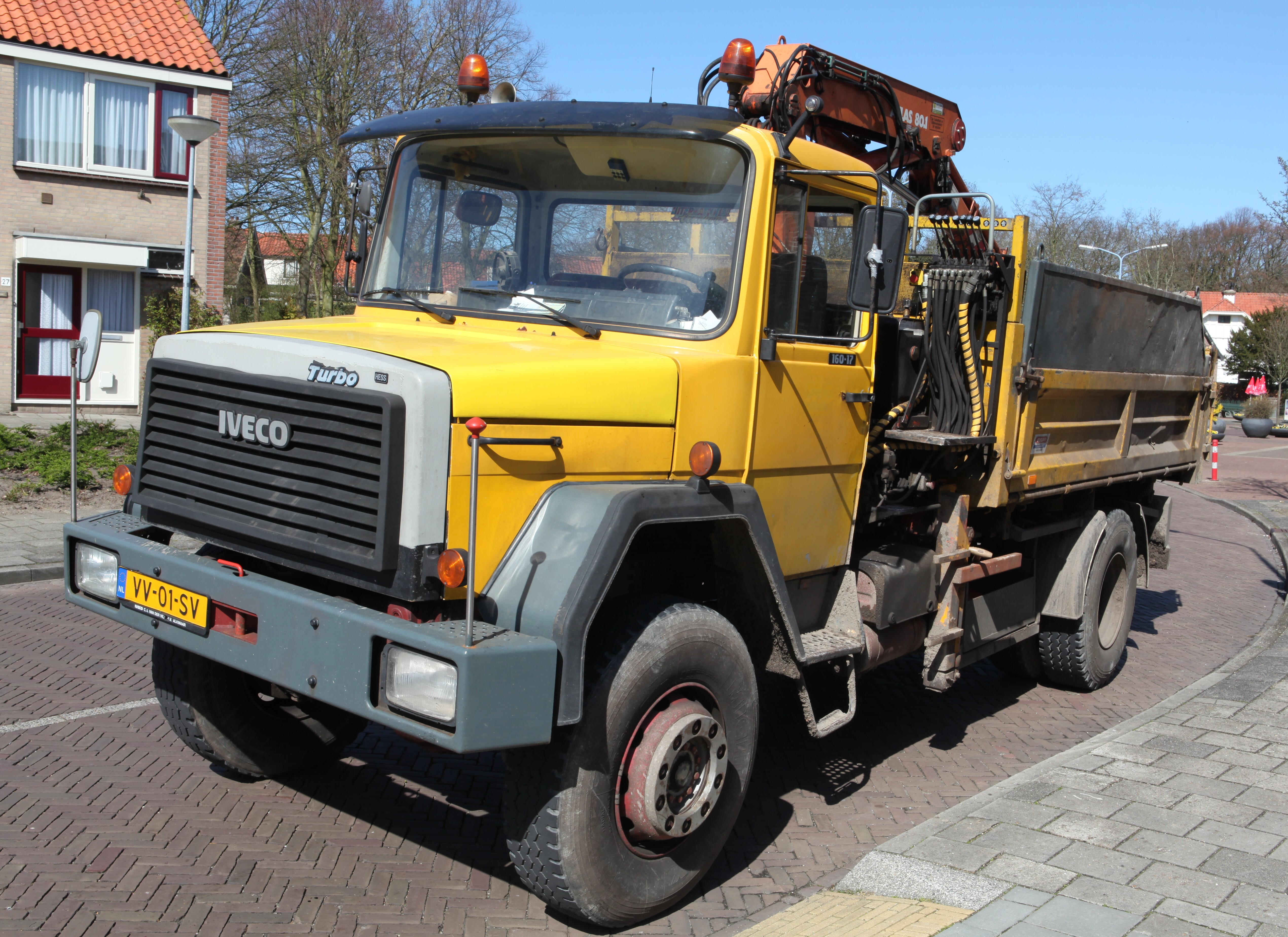 Iveco Turbo 160-17 Hess ANW.